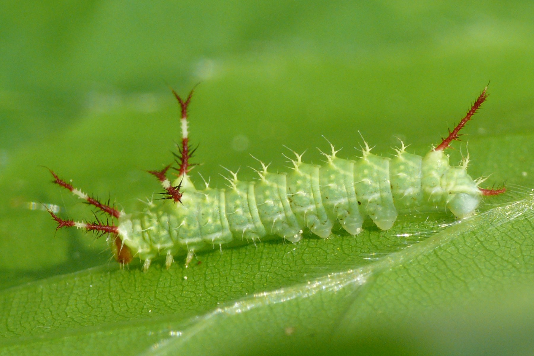 Caterpillar of (Aglia tau) in first instar (L1).